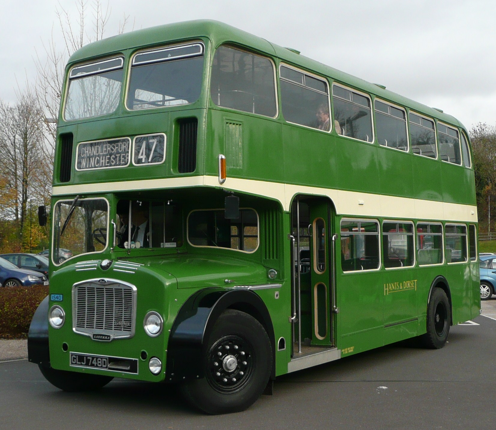 Hants & Dorset Motor Services' 1540 (GLJ 748D), a Bristol Lodekka FLF at Winchester St Catherine's park and ride site at the Bluestar 1 event.